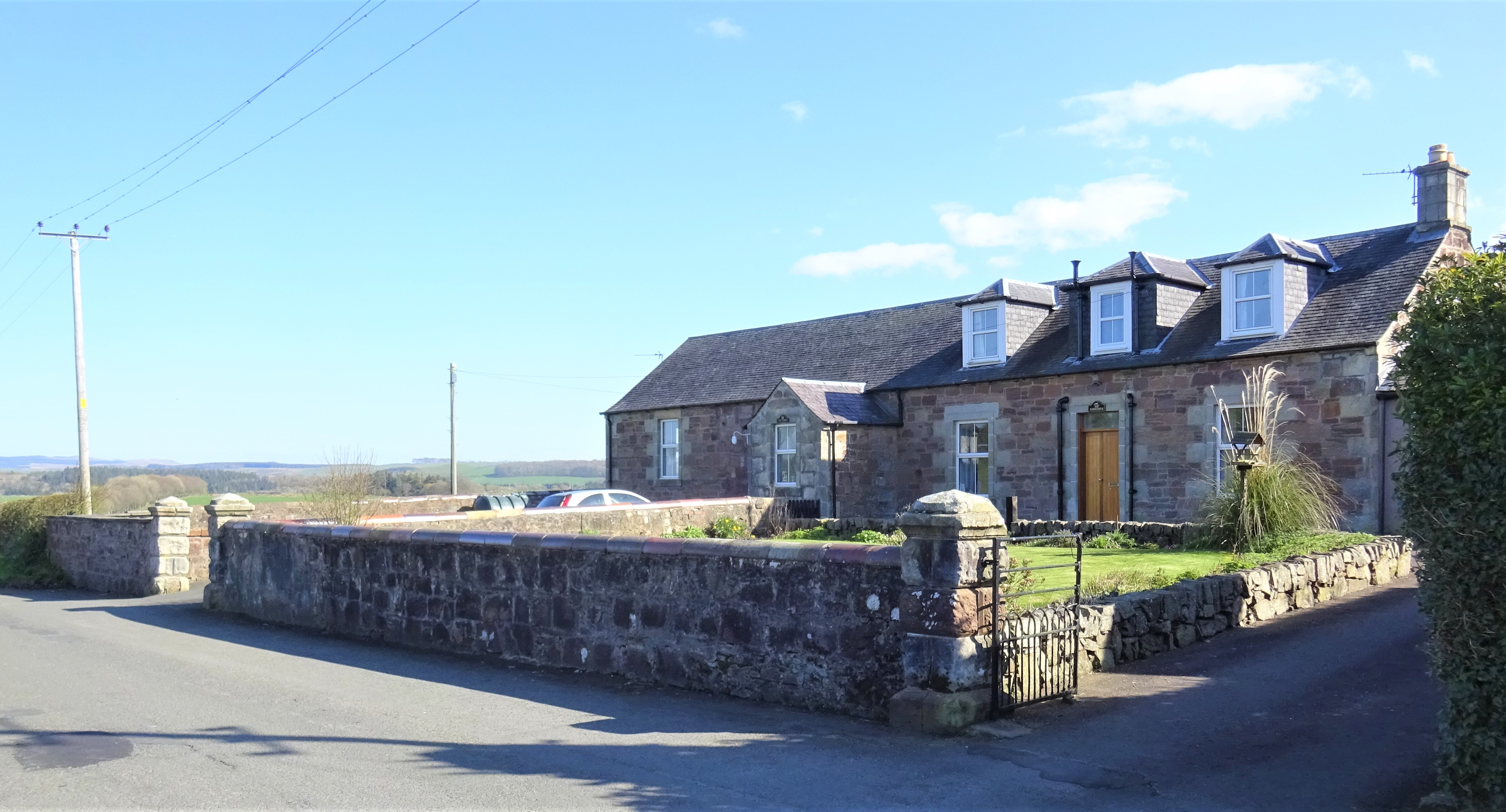 The old Minishant School and schoolhouse, South Ayrshire, Scotland.